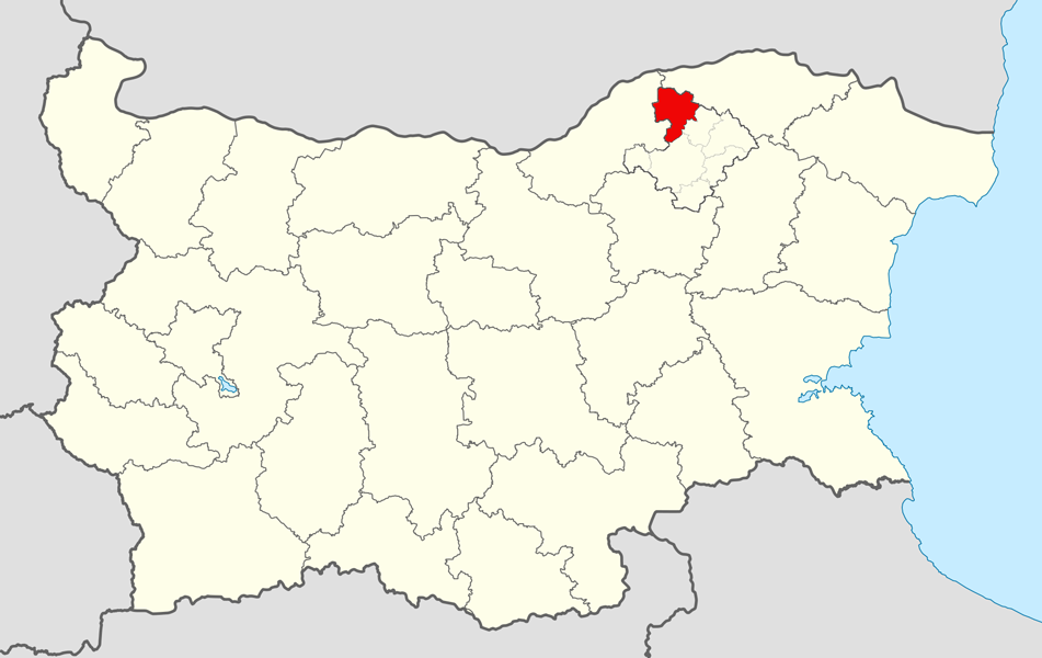 Location map of Kubrat Municipality within Bulgaria and Razgrad Province. Equirectangular projection, N/S stretching 130 %. Geographic limits of the map: N: 44.4° N S: 41.1° N W: 22.1° E E: 28.9° E